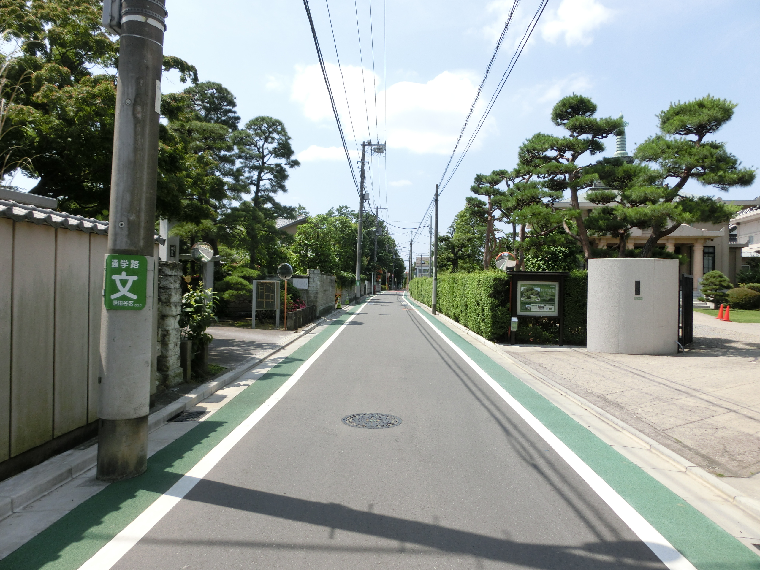 Karasuyama Temple Town